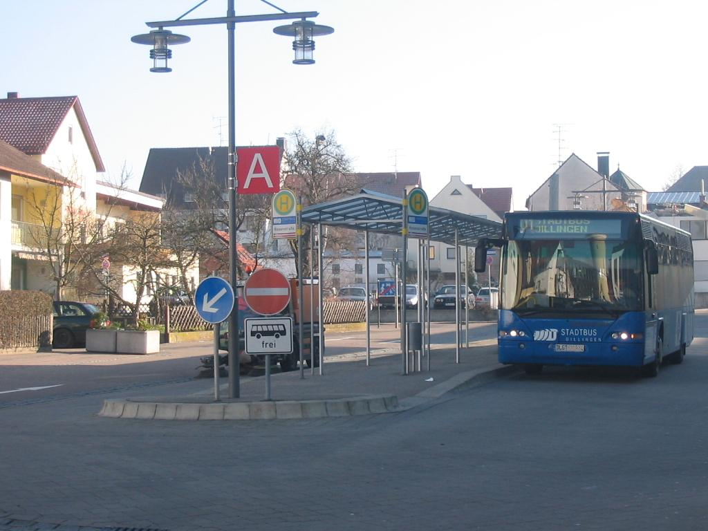 Stadtbus in the city of Dillingen a.d. Donau, Germany